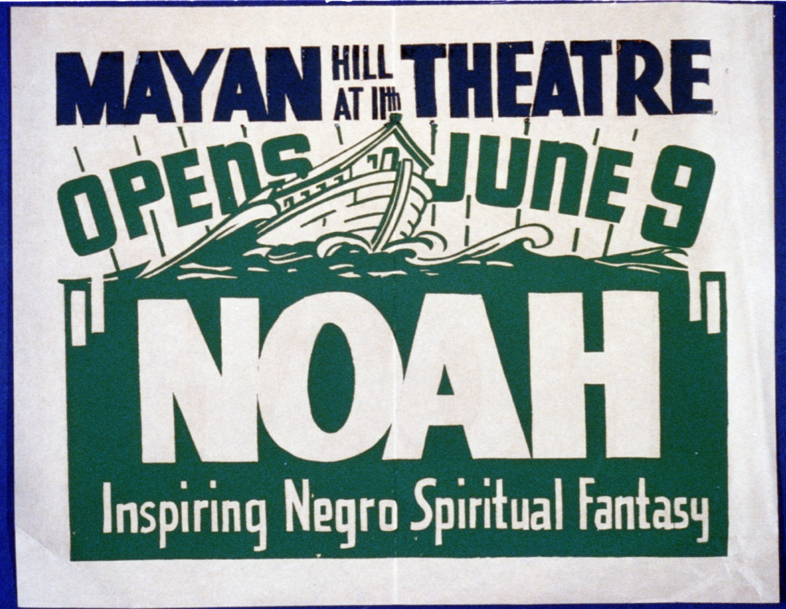 Title: "Noah" inspiring negro spiritual fantasy Abstract: Poster for presentation of "Noah" at the Mayan Theatre, showing the ark. Physical description: 1 print (poster) : silkscreen, color. Notes: Work Projects Administration Poster Collection (Library of Congress).